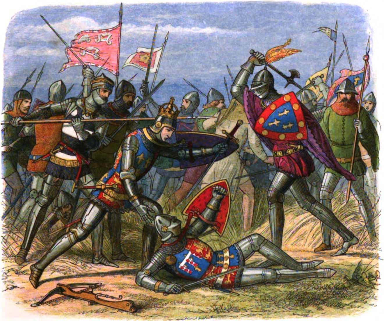 Henry V is attacked by the Duke of Alençon.